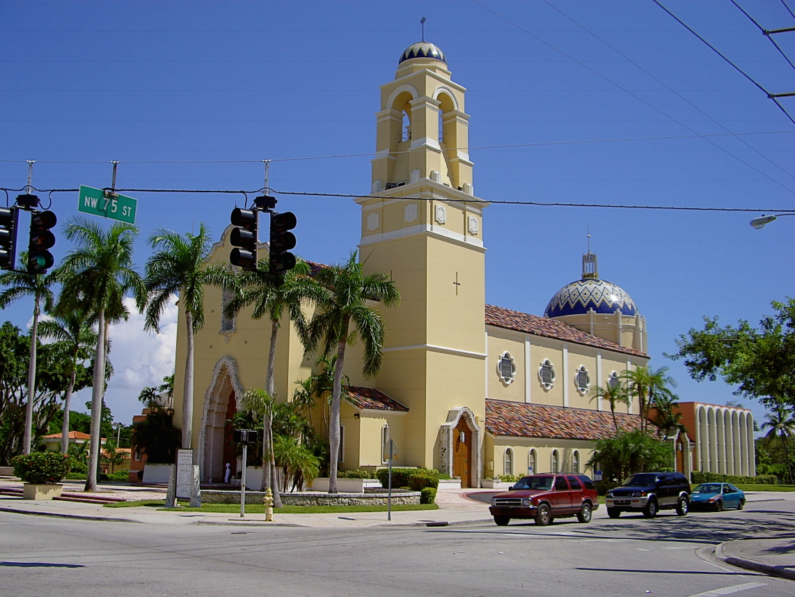 Taken by myself